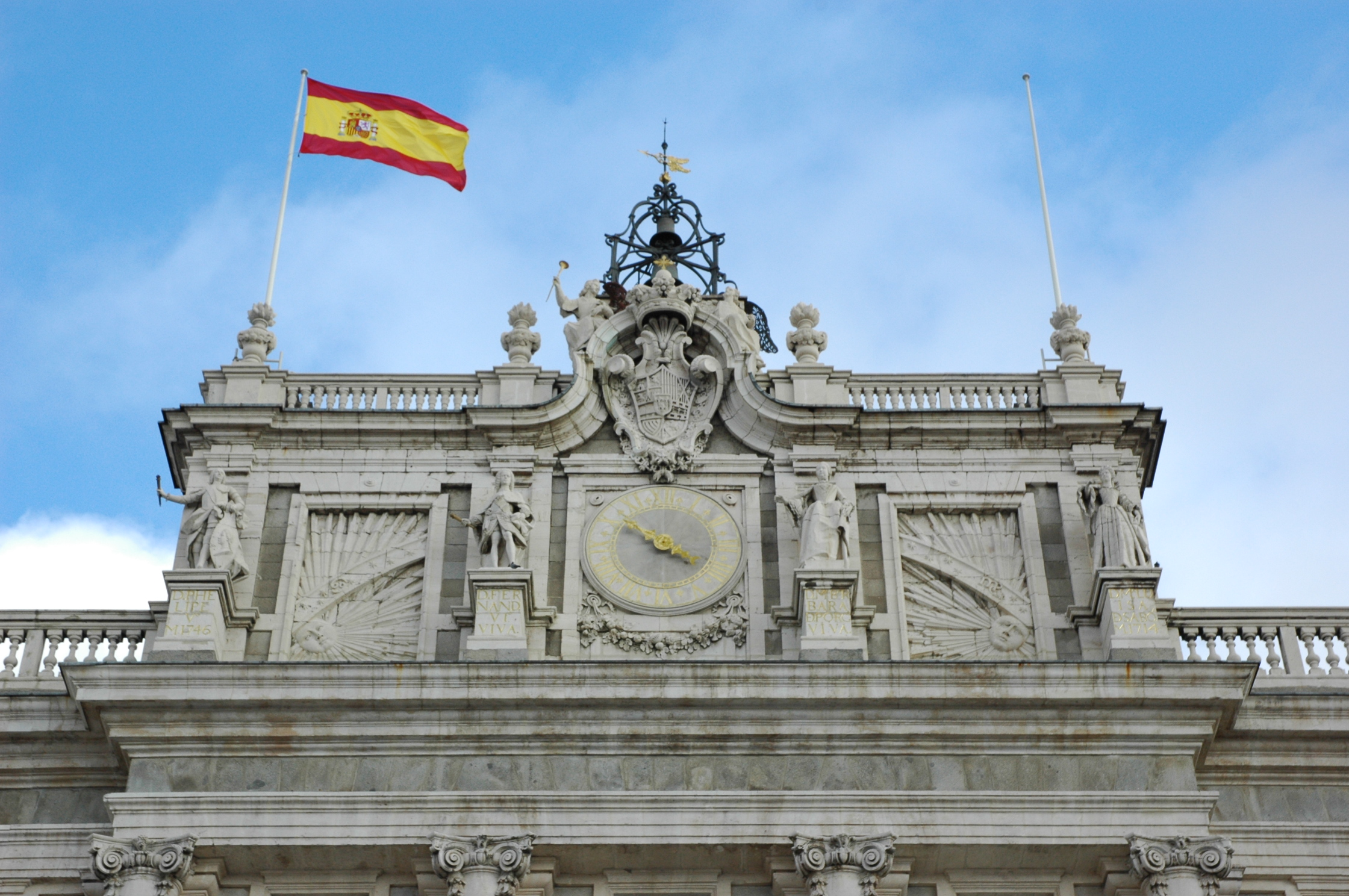 Detail of the south façade of the Royal Palace of Madrid, Spain (1738–1764; 1778).